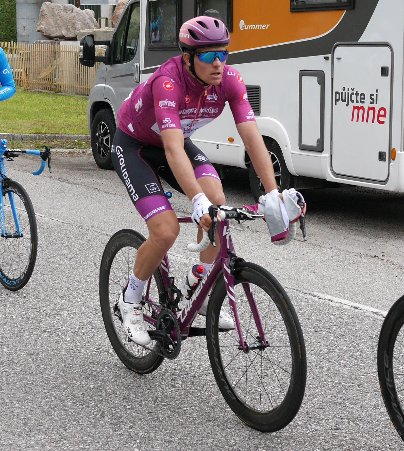 Arnaud Démare team Groupama–FDJ, Giro d'Italia 2019, Stage 18, wearing cyclamen jersey as Points leader.